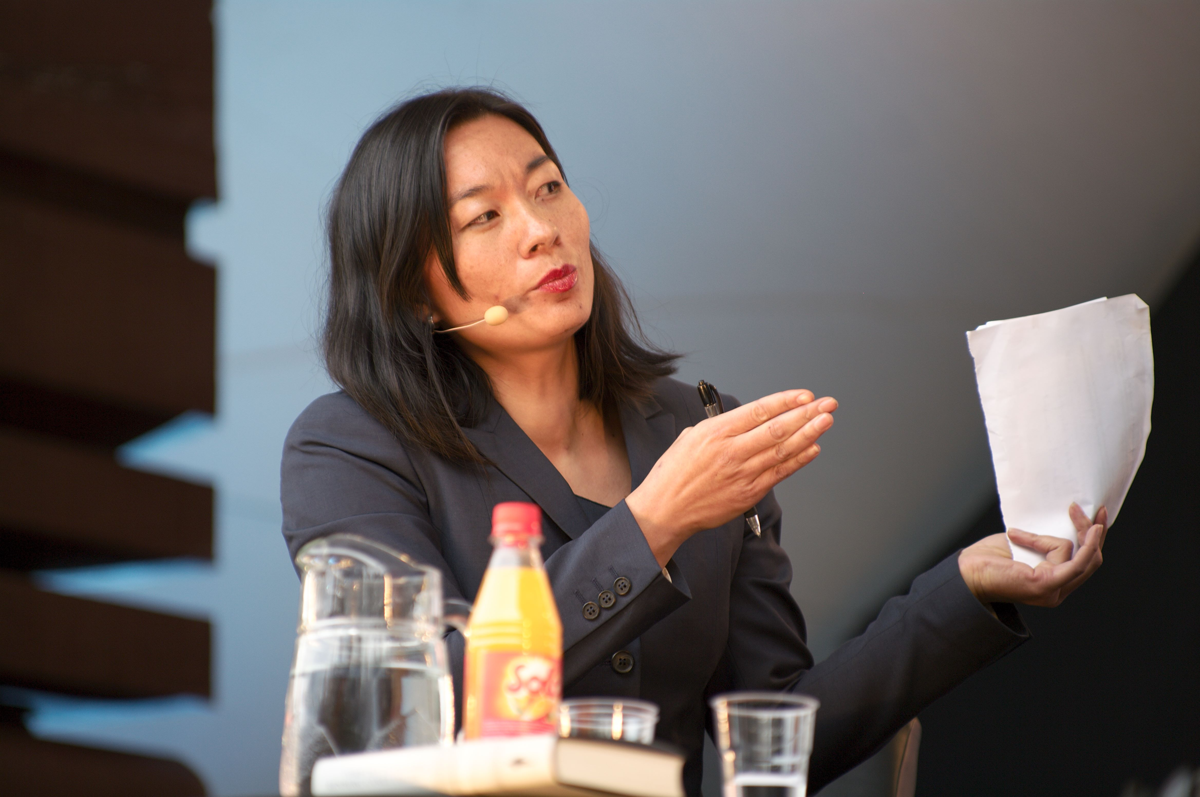 Cathrine Sandnes at Oslo bokfestival 2011